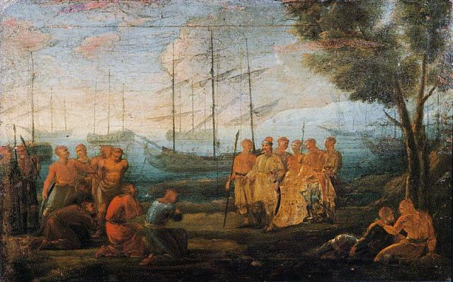 Turks surrender Lambros Katsionis. Painting from the palace of Katsionis in Crimea. National Historic Museum, Athens.